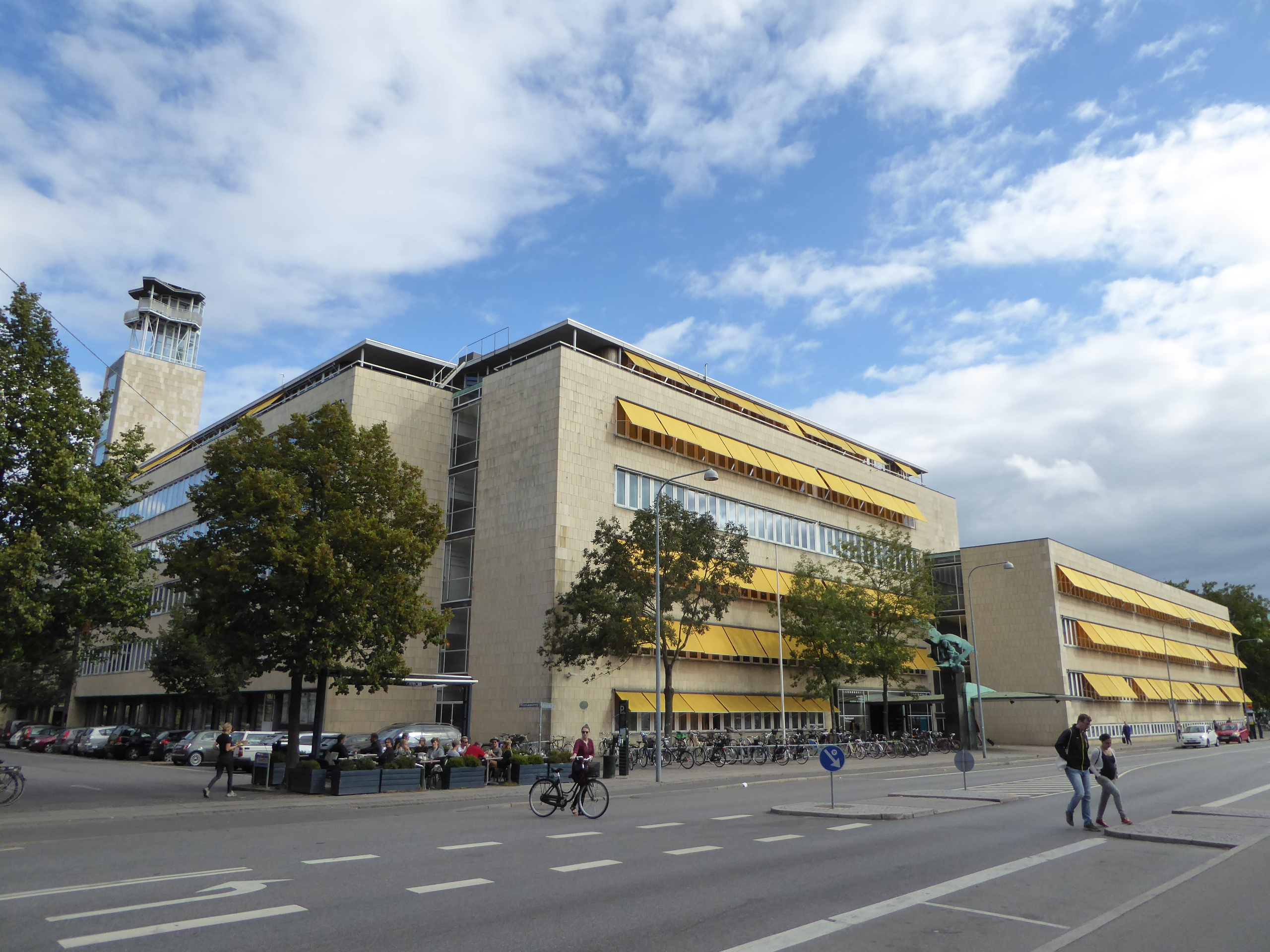 The former broadcasting building Radiohuset at Rosenørns Allé in Frederiksberg in Copenhagen.